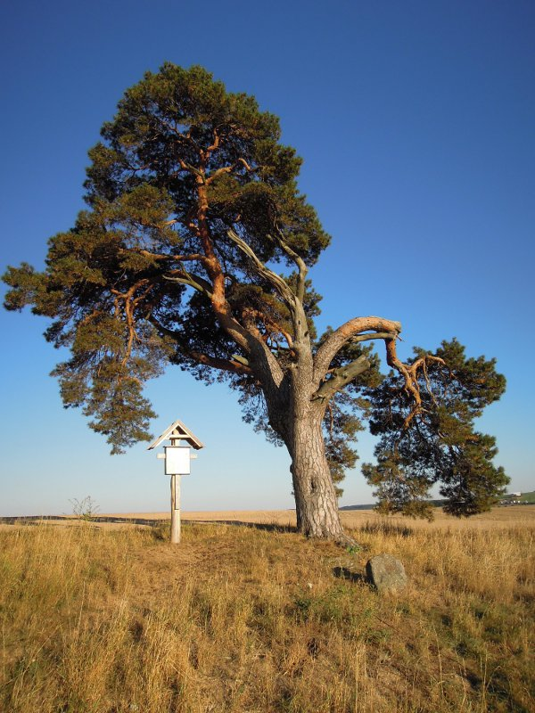 Pine tree in autumn 2011